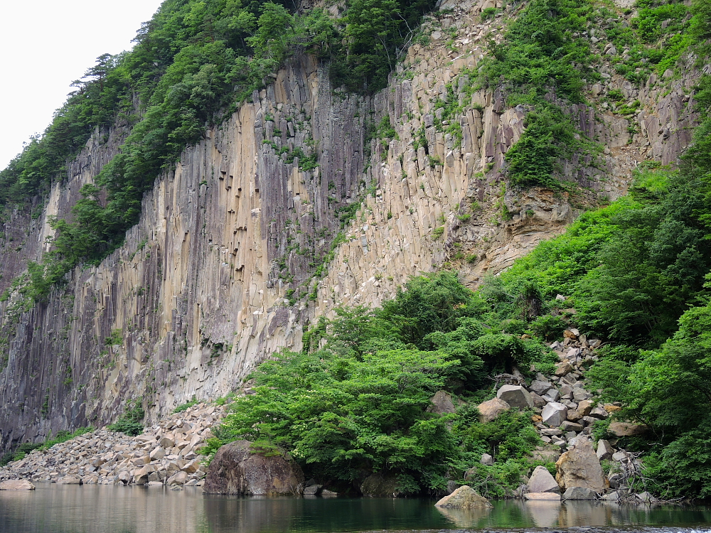 Obara no Zaimoku-iwa ("Zaimoku Rock of Obara") in Shiroishi City, Miyagi Prefecture, Japan